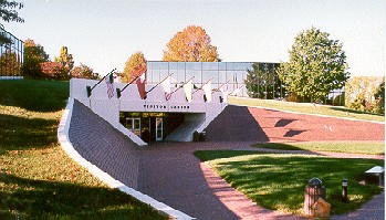 Visitors Center at Valley Forge